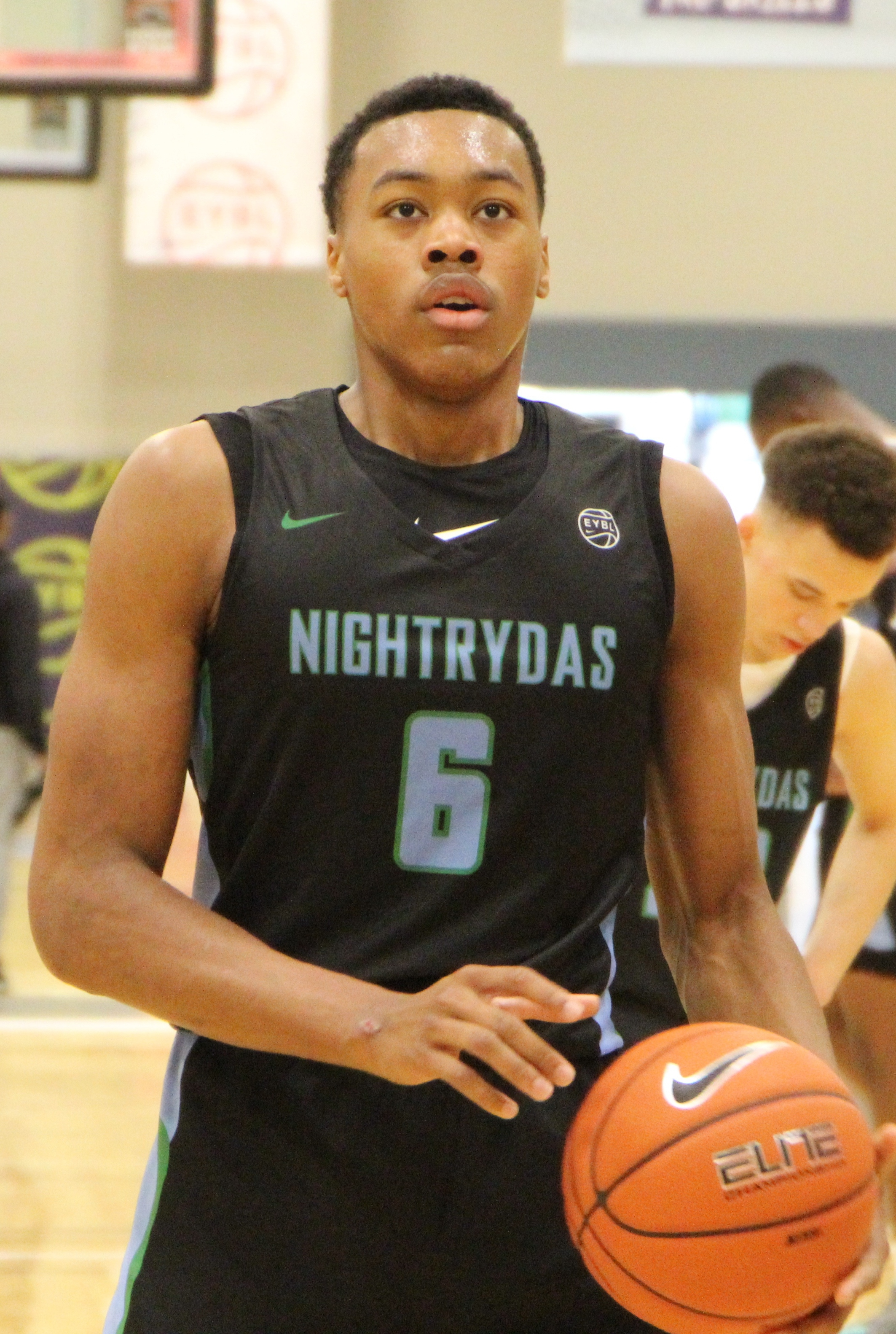 Scottie Barnes plays for Nightrydas Elite at the second session of Nike EYBL in Westfield, Indiana, on May 11. Photo: Colin Hass-Hill For more Ohio State basketball coverage, visit .